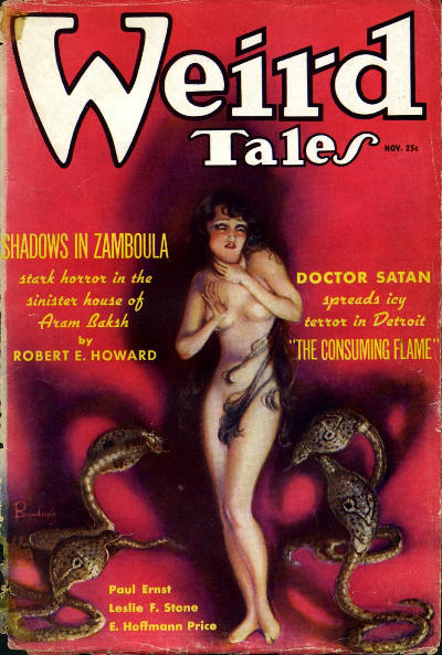 Cover of the pulp magazine Weird Tales (November 1935, vol. 26, no. 5) featuring Shadows in Zamboula by Robert E. Howard. Cover art by Margaret Brundage.